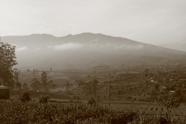 View from Gunung Wayang, Bandung, West Java, Indonesia